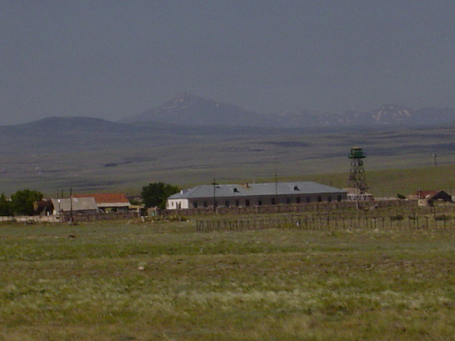 An Armenian border guard station along the border with Turkey, somewhere in Shirak marz.